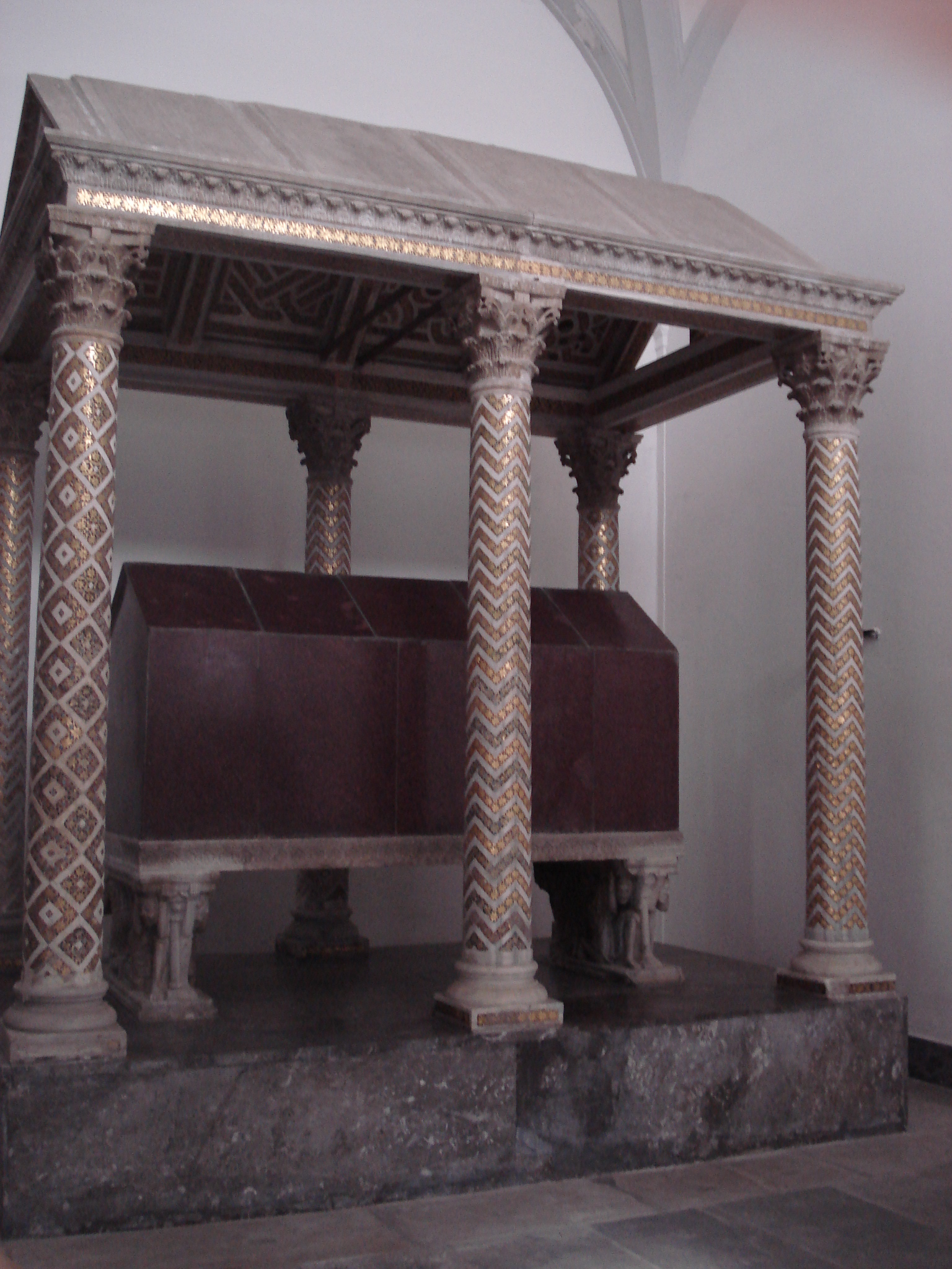 Porphyry sarcophagus of Roger II of Sicily (1096--1154), in the Cathedral of Palermo (Sicily). Picture by Giovanni Dall'Orto, September 28 2006.